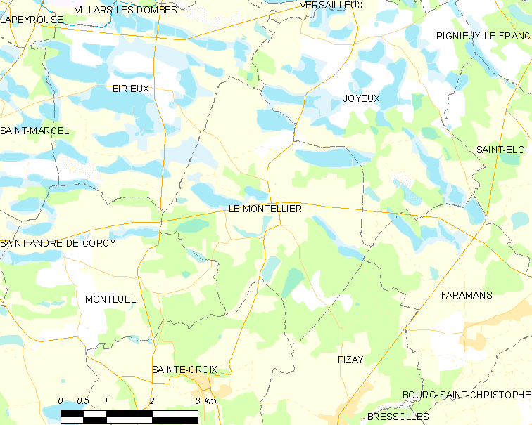 Map of French commune: Le Montellier Map commune FR insee code 01260.png